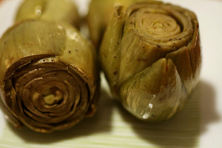 Braised baby artichokes